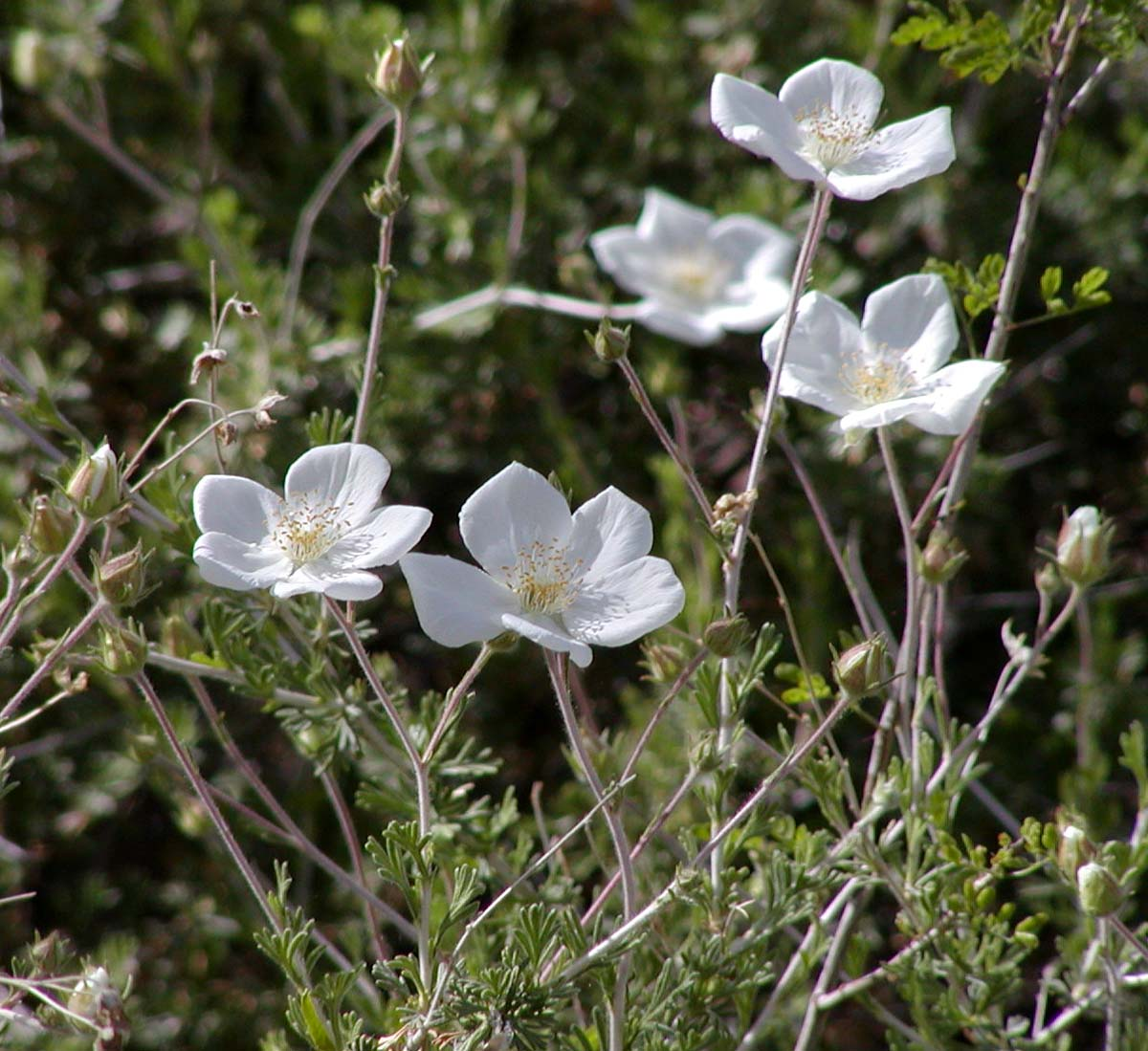 Photo of Fallugia paradoxa (Apache plume) at the Desert Demonstration Garden in Las Vegas